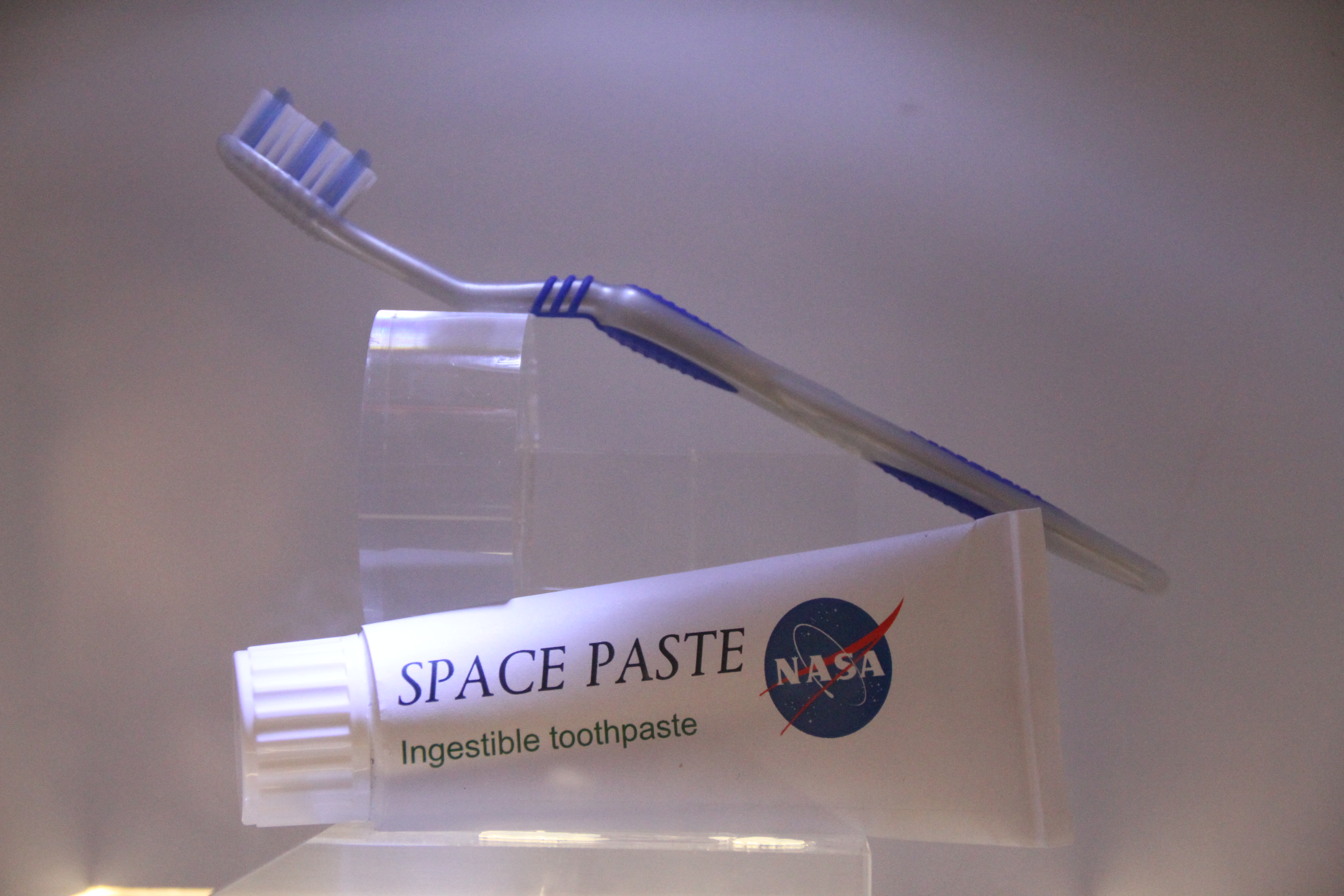 Space toothpaste. Exhibits at the Universeum Science Museum, Gothenburg (Sweden).